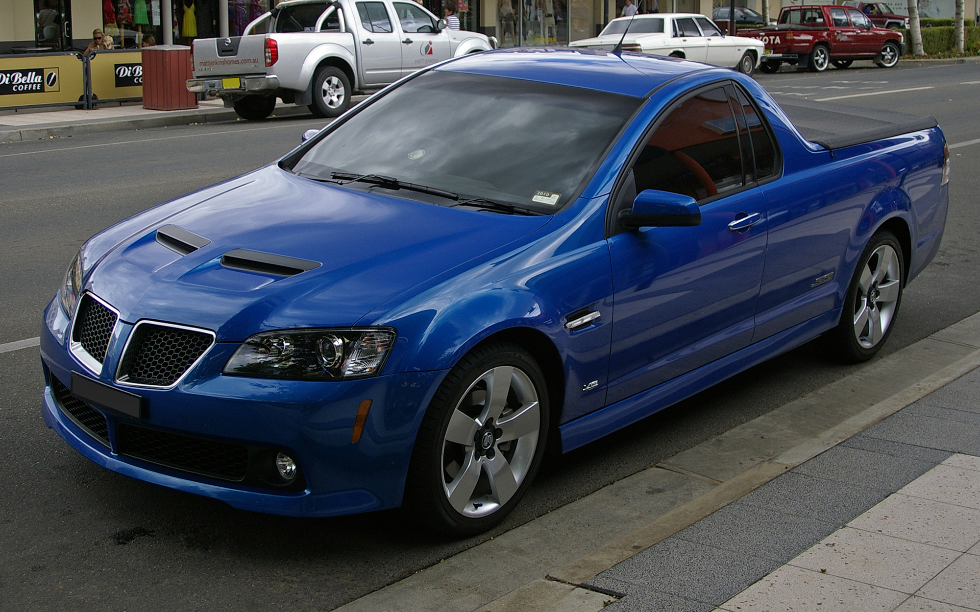 2009–2010 Holden VE Commodore (MY10) SS V Special Edition Ute.